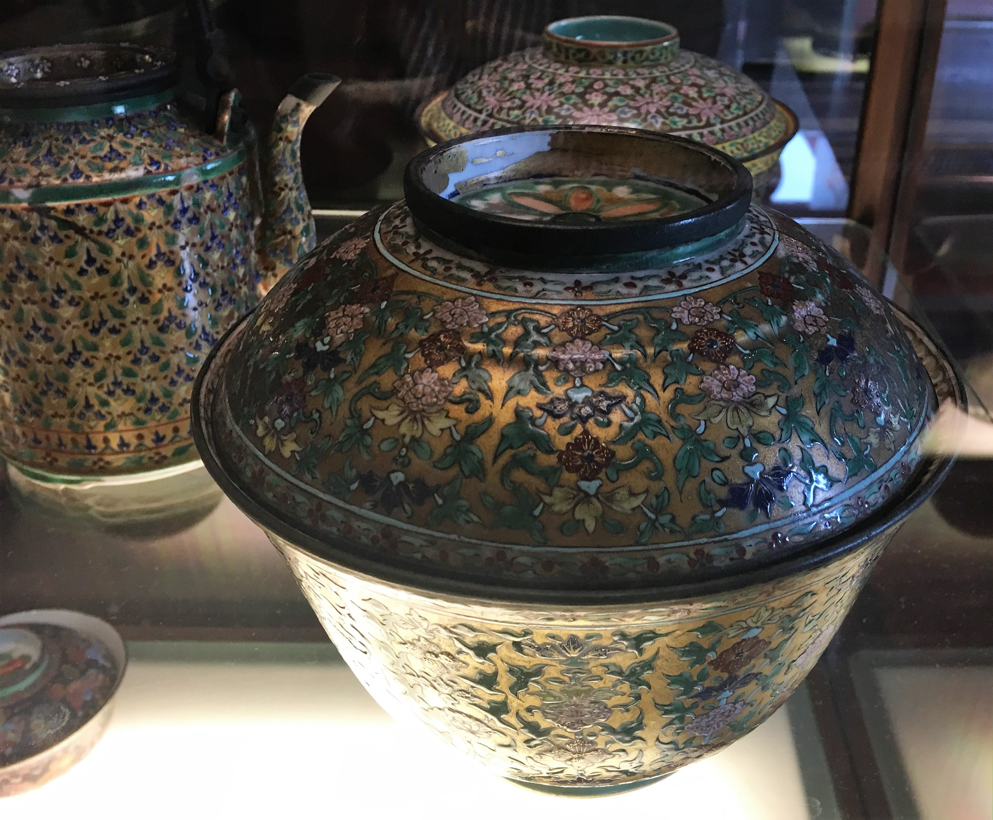 "Benjarong" style porcelain / ceramics, from the Jim Thompson House collection. Benjarong style of 17-19th century (Ayuthaya) was Thai design, but produced in China (Canton) for export exclusively to Thailand. The pentachromatic style (red, black, blue, green, yellow), was named from Sanskrit words for "five colours". Bangkok, Thailand.